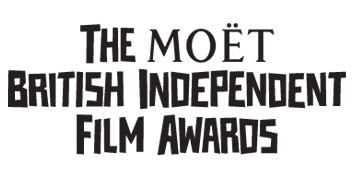 Moet British Independent Film Awards logo 2010